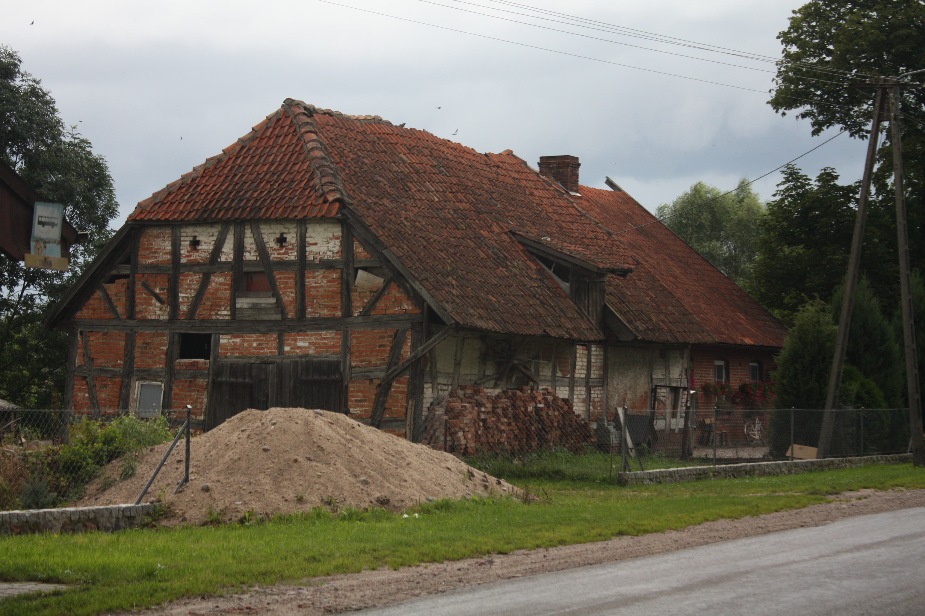 This photo of Warmian-Masurian Voivodeship was taken during Wikiexpedition 2012 set up by Wikimedia Polska Association. You can see all photographs in category Wikiekspedycja 2012. The making of this document was supported by Wikimedia Polska.